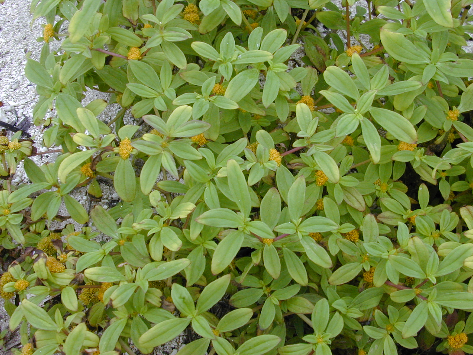 Flaveria trinervia (habit). Location: Kure Atoll, along coast